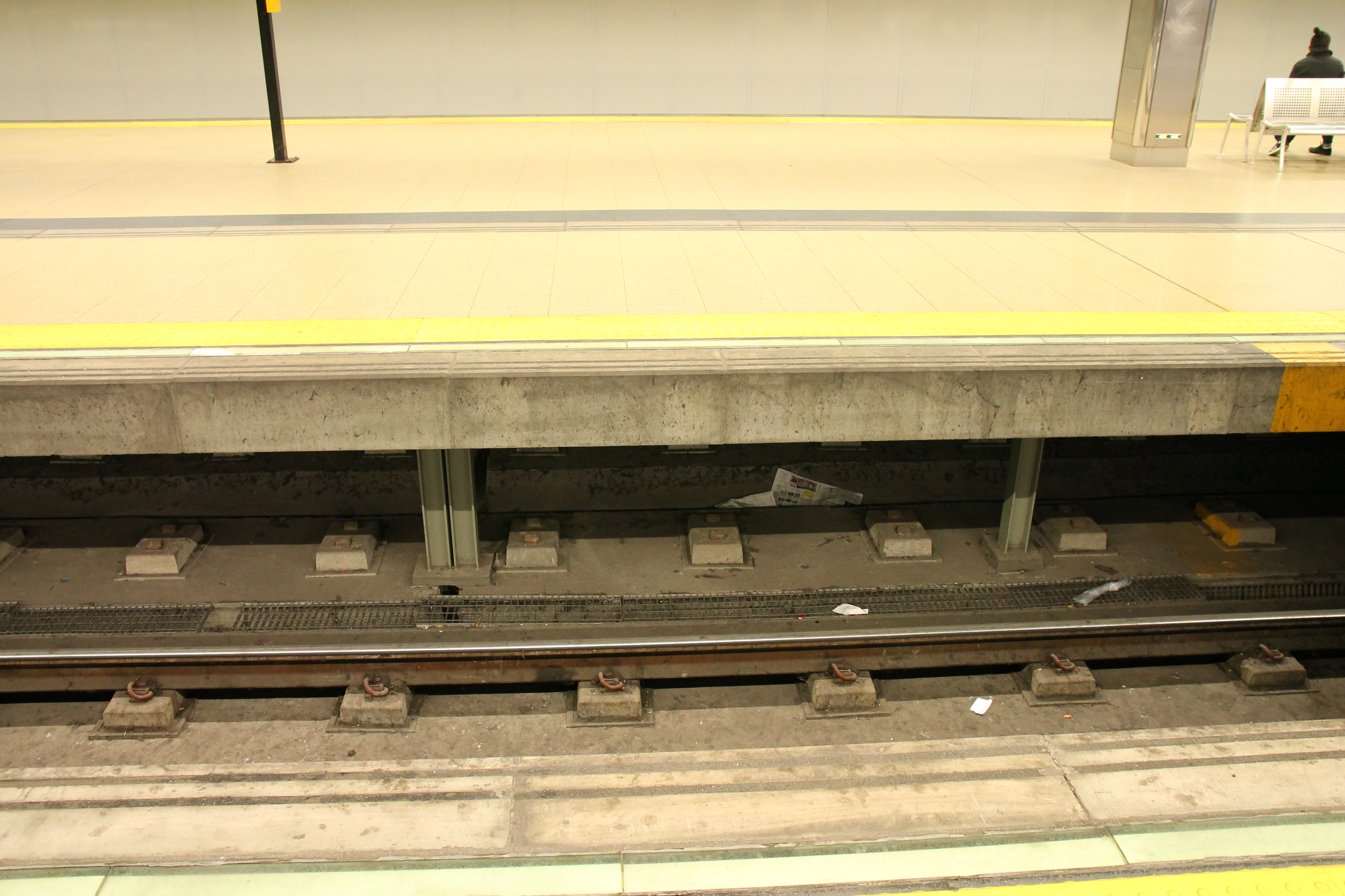 Casa de Campo metro station, Madrid